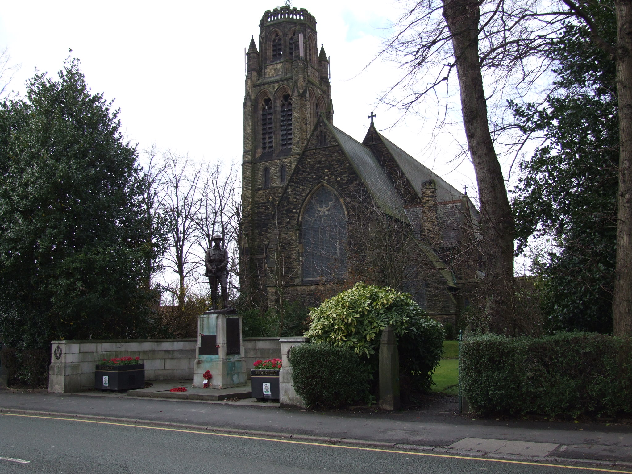 Heaton Moor is situated in Stockport, in the direction of Manchester. It is a railway suburb, served by Heaton Chapel railway station. The railway runs parallel to the A6, and the moor is on the other side of the railway... . St Paul's Church, Heaton Moor 1876/1896/1910, with War memorial in front.